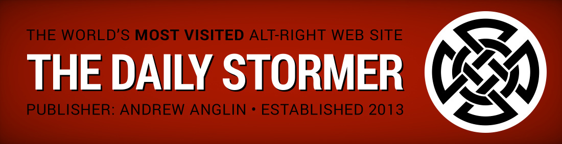 The Daily Stormer logo and banner